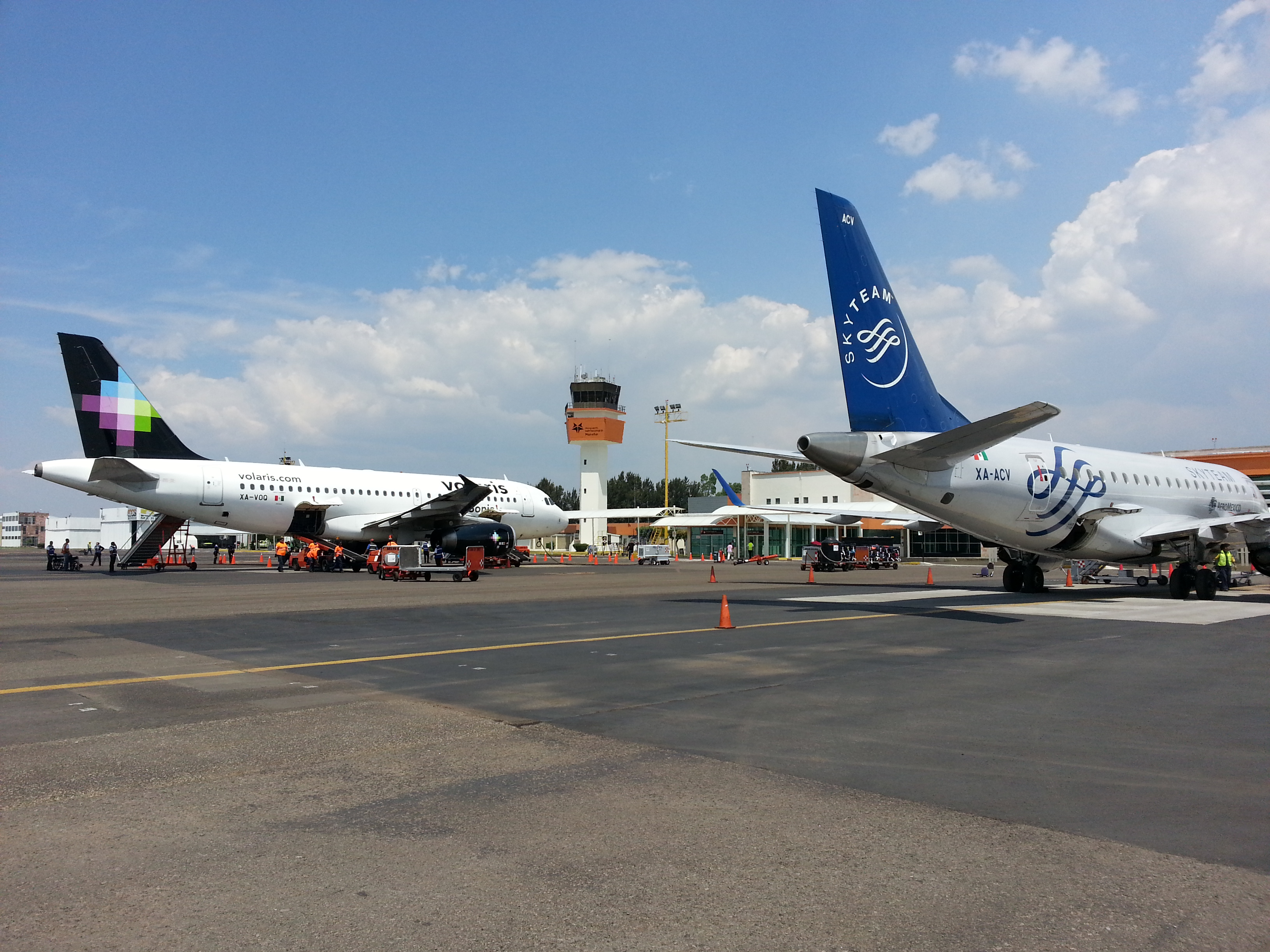 This photograph depicts what a normal rush hour looked like from the apron perspective at Morelia Airport.